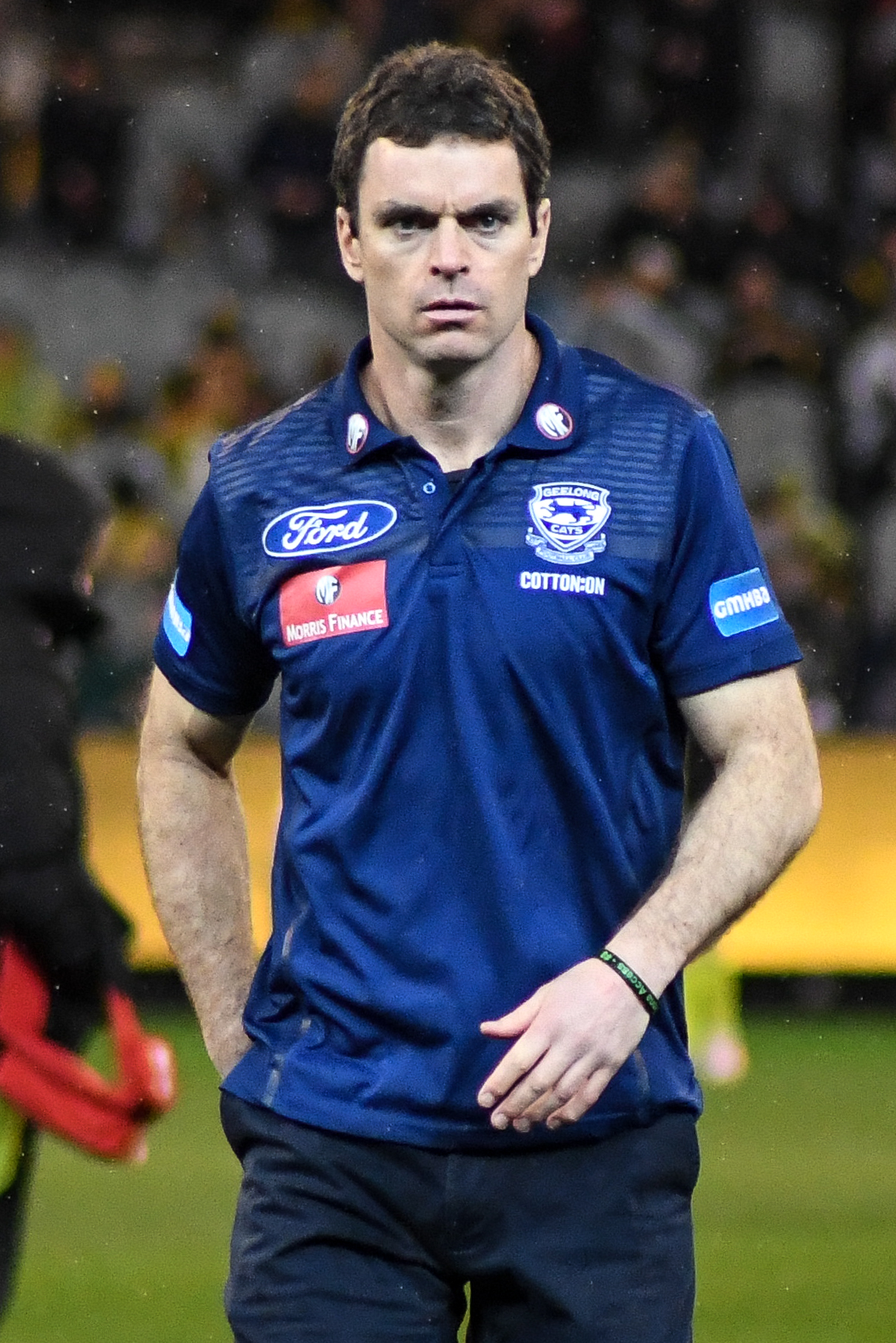 Matthew Scarlett of Geelong during the 2018 AFL round 20 match between Richmond and Geelong at the Melbourne Cricket Ground on Friday, 3 August 2018 in Melbourne, Victoria.